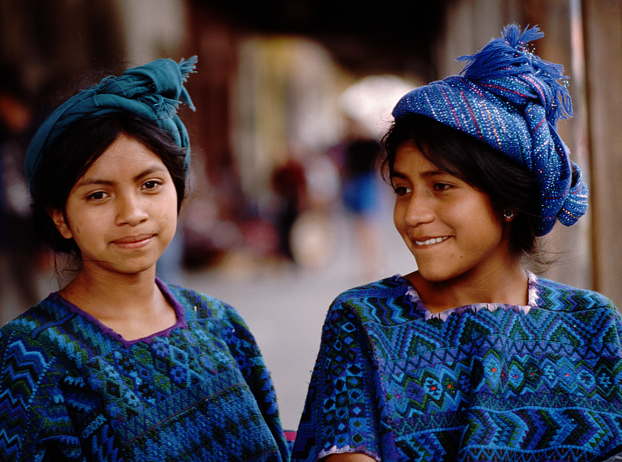 Young women on the marketplace of Chichicastenango, Guatemala 1996. The girls' costume indicates that they are from the town of Santa Catarina Palopó on Lake Atitlán. (Jamie Marshall, Curator, The Guatemalan Maya Centre, London).